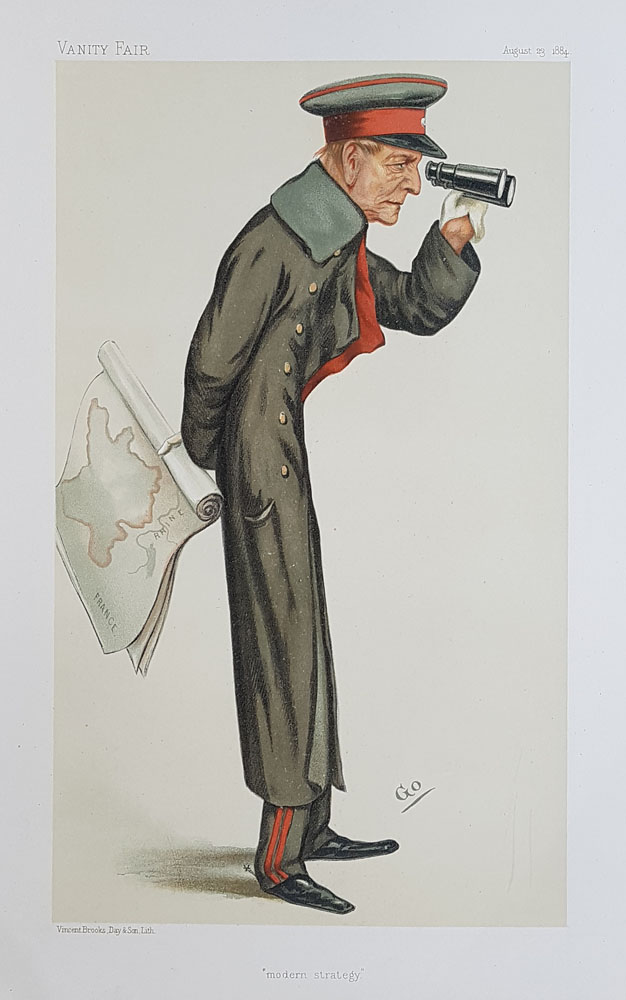 Caricature of Helmuth Karl Bernhard Graf von Moltke. Caption read "Modern Strategy".